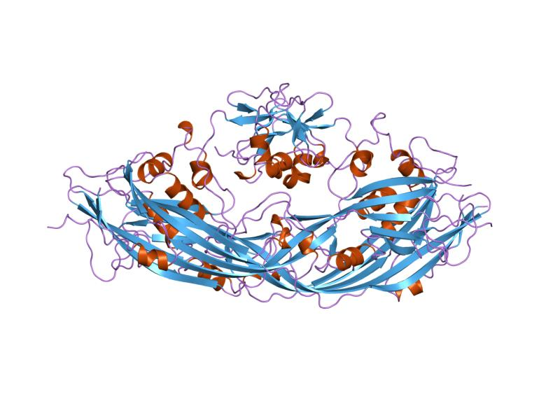 Cartoon representation of the molecular structure of protein registered with 1pre code.